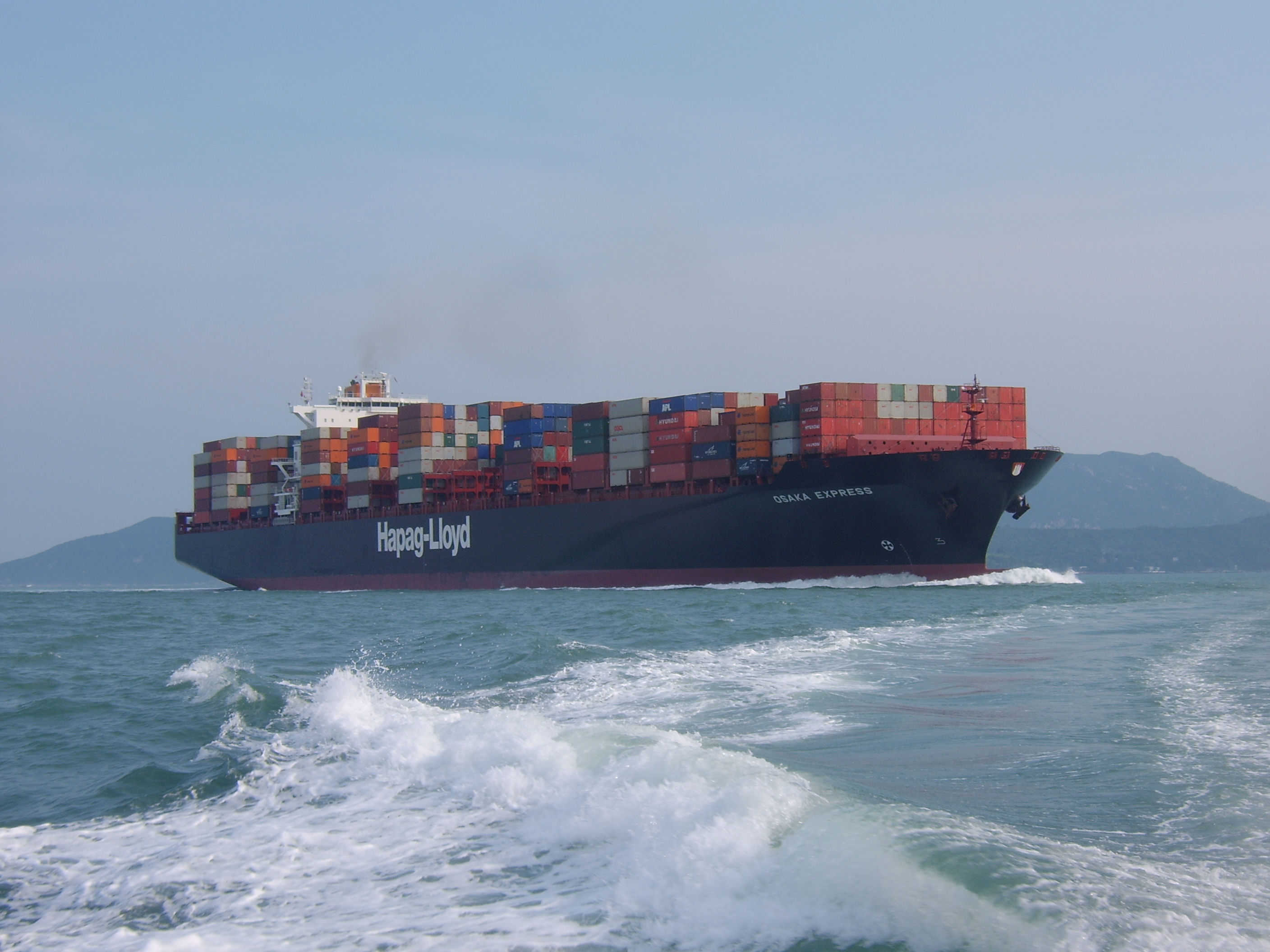 Osaka Express Container Ship seen entering the Victoria Harbour near Hong Kong Island on September 29, 2007